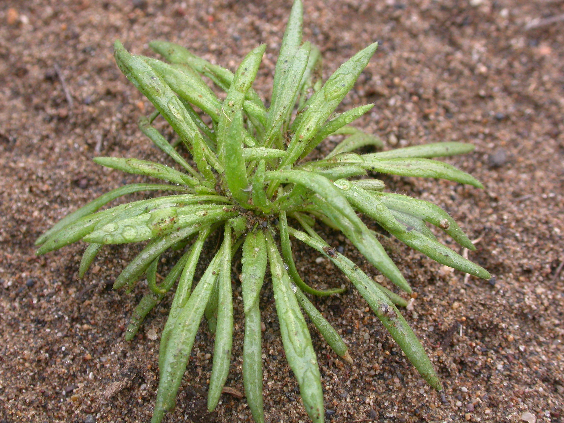 an annual herb common to sandy sites and flowering well into mid summer; the leaves are distinctively hairy and narrow and the margins are slightly inrolled